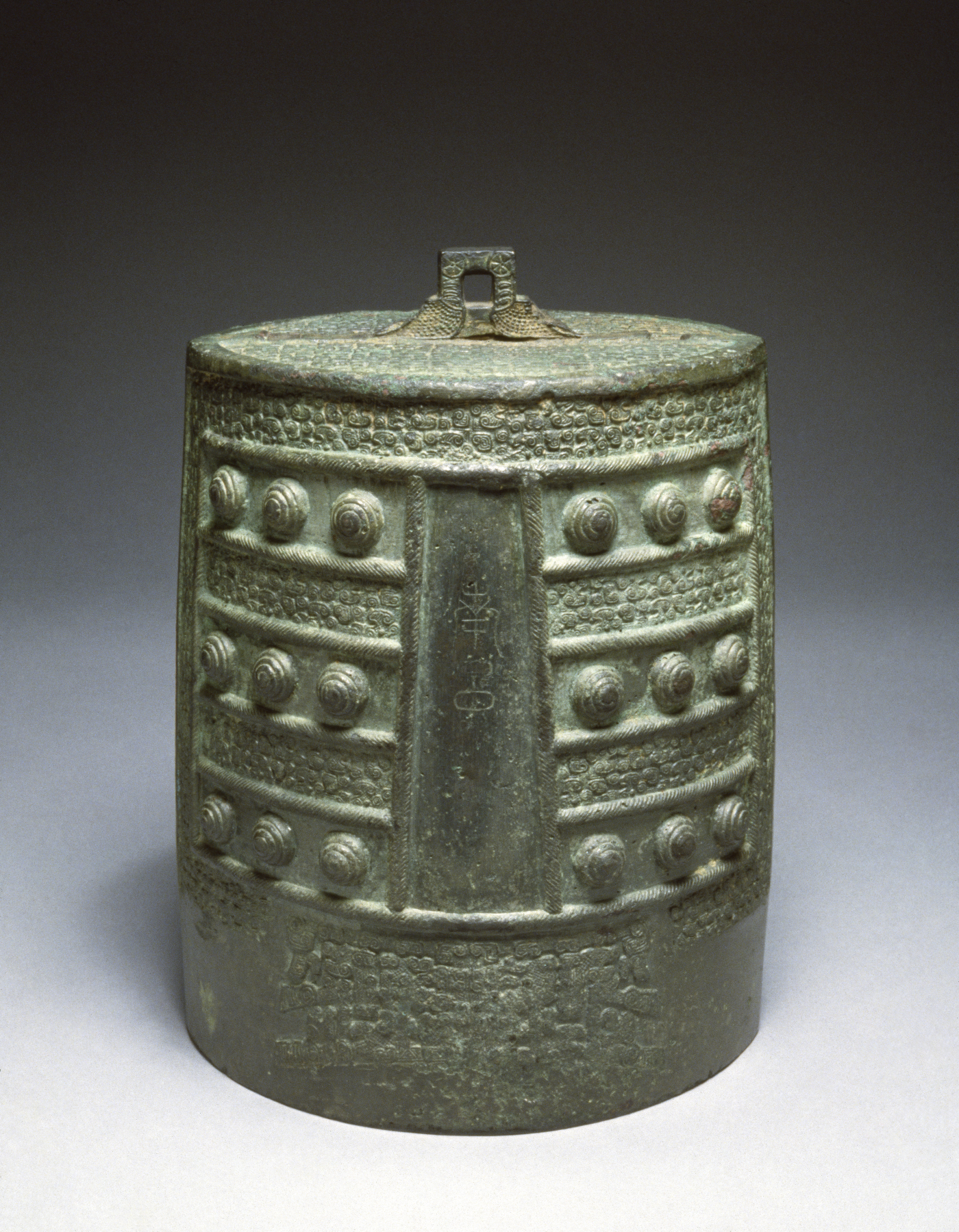 The emperor Huizong [Hui-tsung] (reigned 1100-1126) was anxious to bring ritual court music into accordance with ancient standards. Taking the length of the emperor's fingers as a guide, the fundamental pitch was determined (it turned out to be almost exactly middle C). New sets of bells were then cast, their form based on a newly excavated set dating from about the 5th century BC. On each bell, the name of the pitch was engraved on one side and characters meaning "Bureau of Music" on the other.